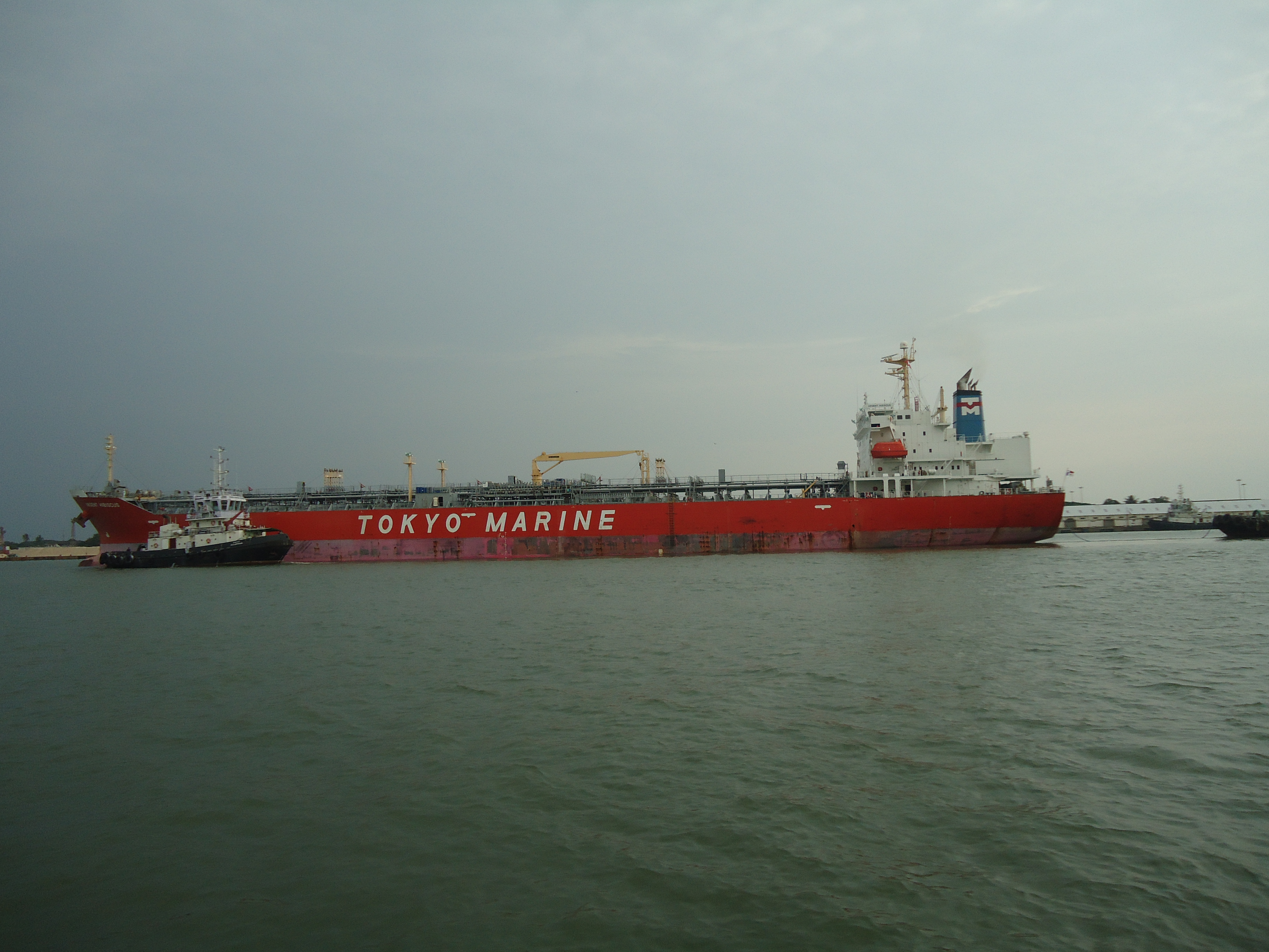 Wiki Hackathon Photo Walk Photos Argent Hibiscus Tokyo Marine at Kochi Port